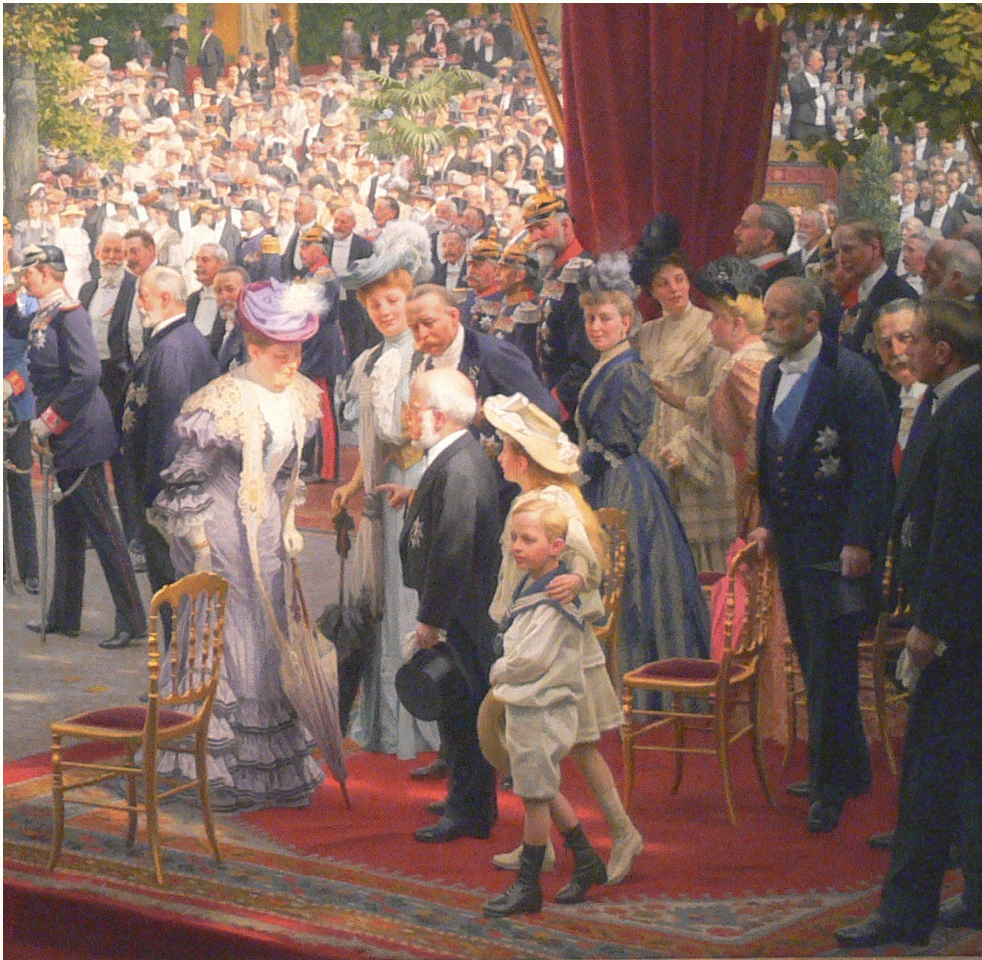 Detail of a painting of the Wagner-monument with Empress Victoria-Augusta and the painter Menzel Berlinische Galerie Native nameBerlinische GalerieLocationBerlinCoordinates52° 30′ 15″ N, 13° 23′ 56″ E Established1975, 2004 (moved to present quarters)Website control VIAF: 127335995 SUDOC: 029122295 BNF: 12081430c